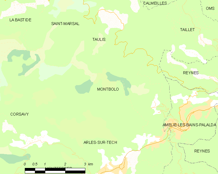 Map of French municipality